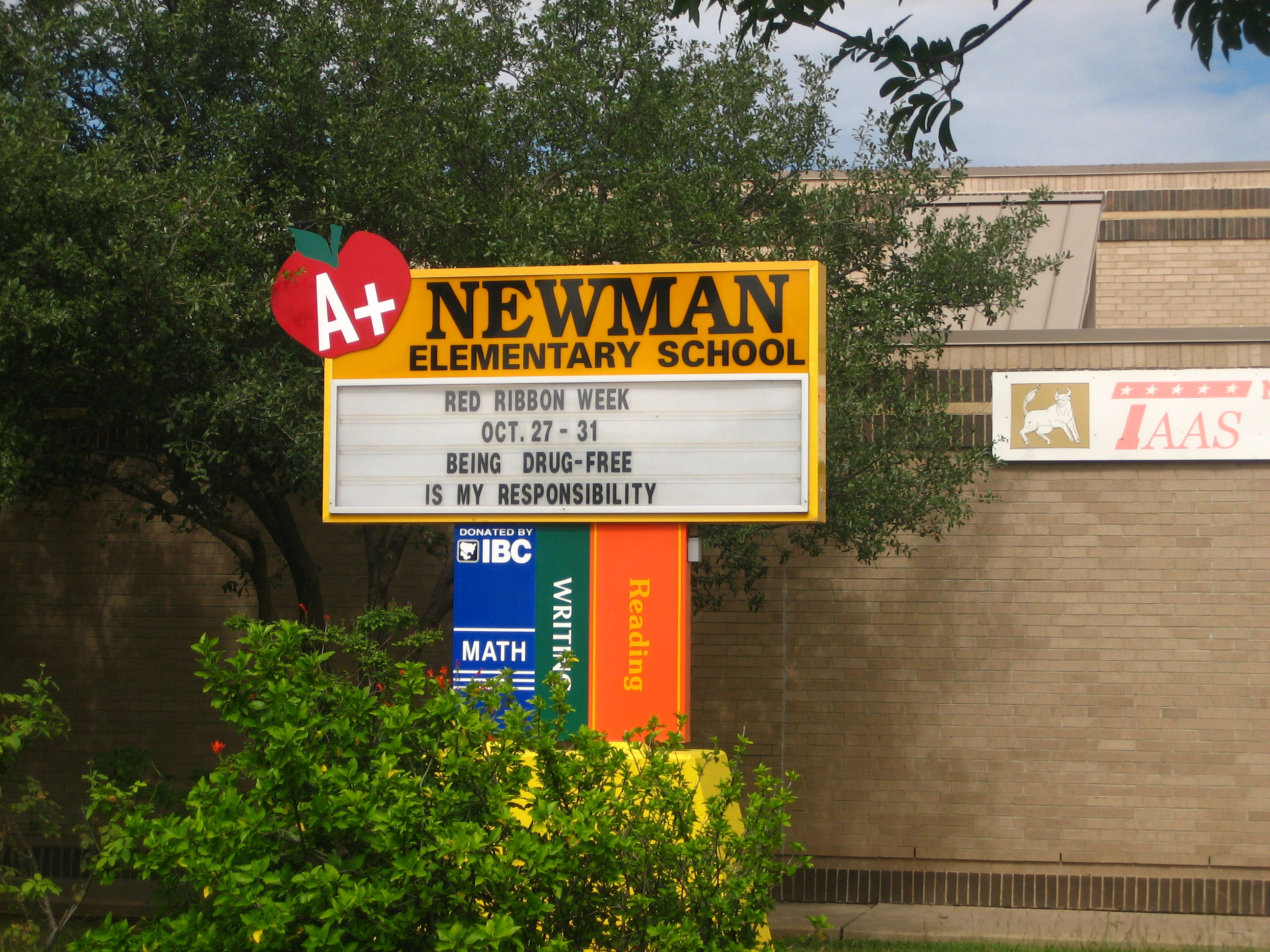 I took photo on Oct. 23, 2008.Billy Hathorn (talk) 20:23, 23 October 2008 (UTC)